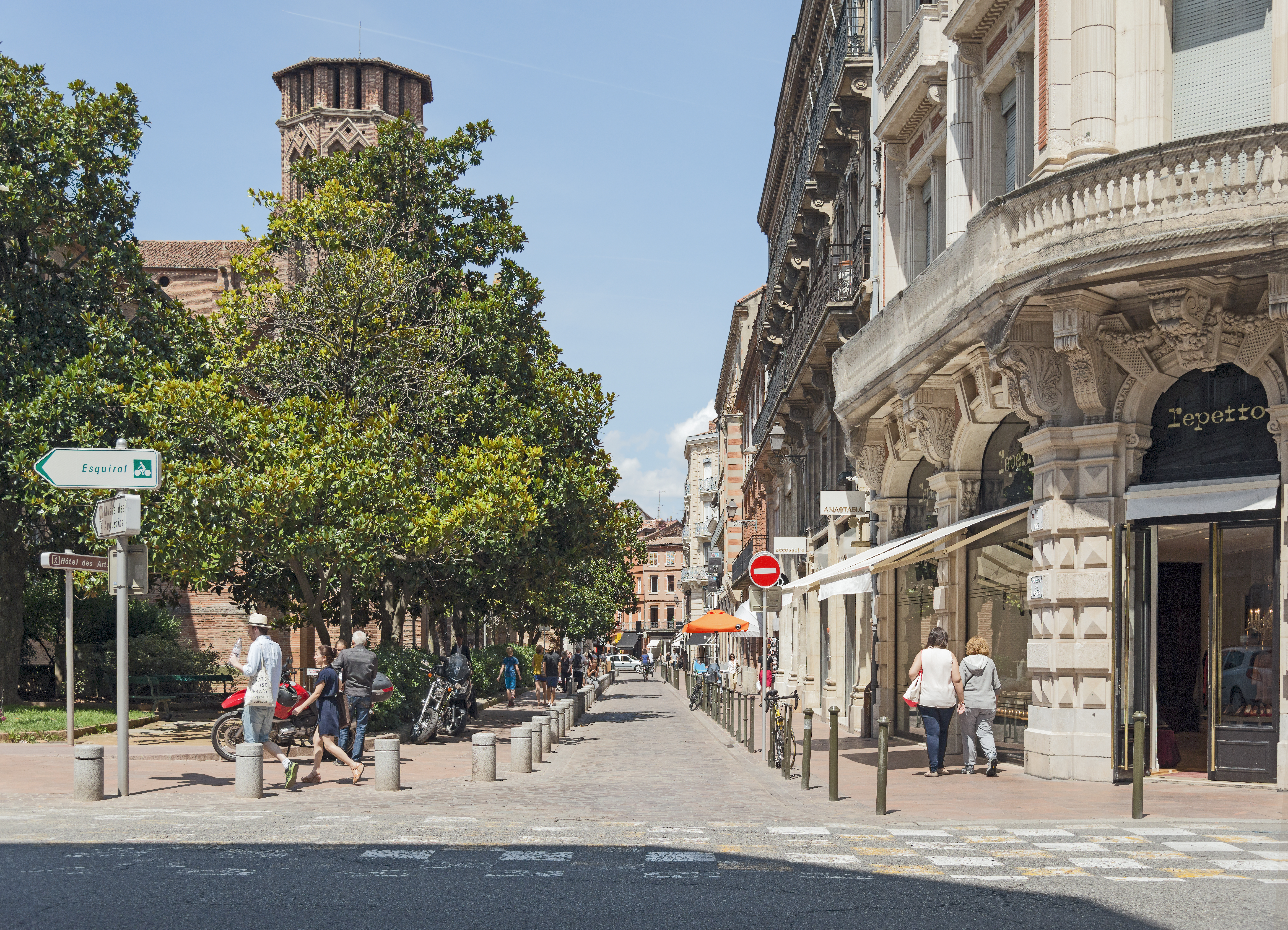 Rue des Arts, in Toulouse. From Rue de Metz to Rue de la pomme